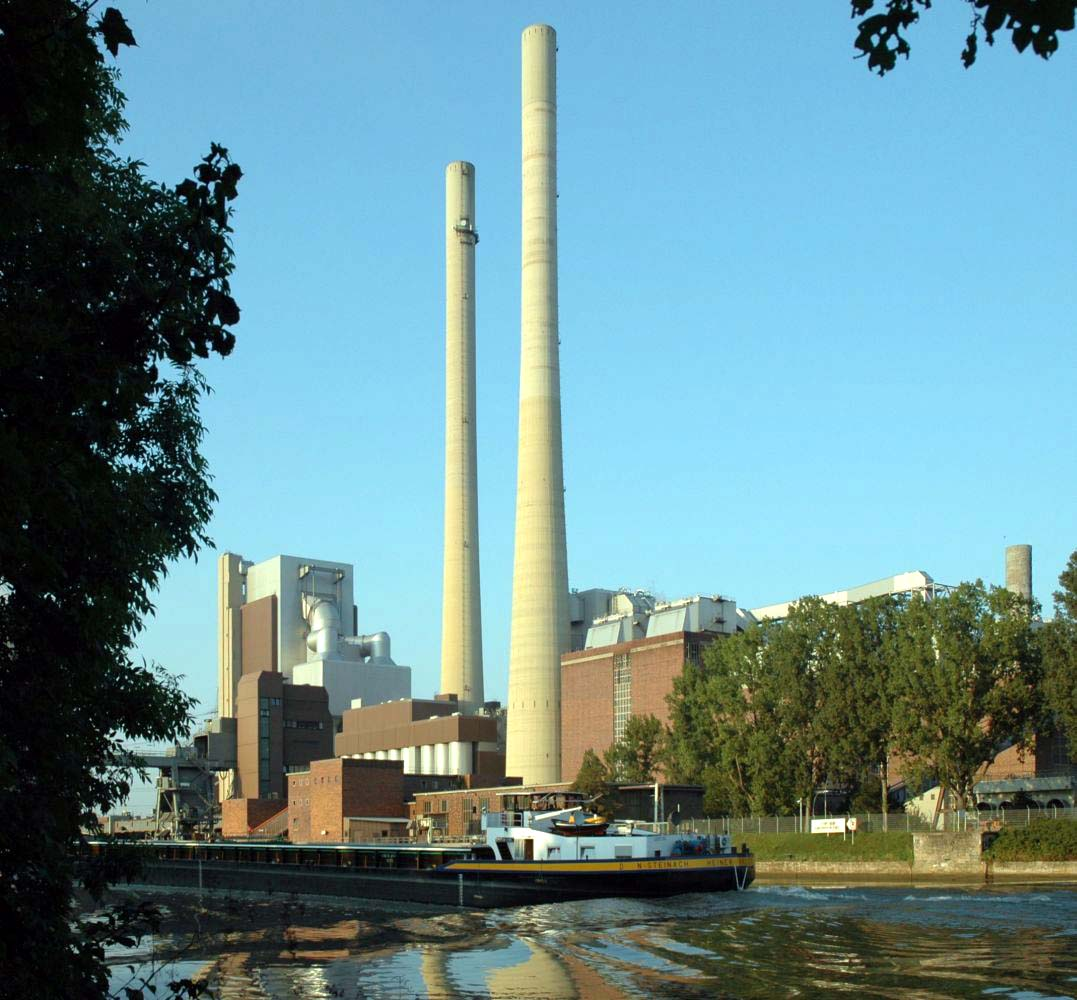 EnBW power plant in Heilbronn (Germany)